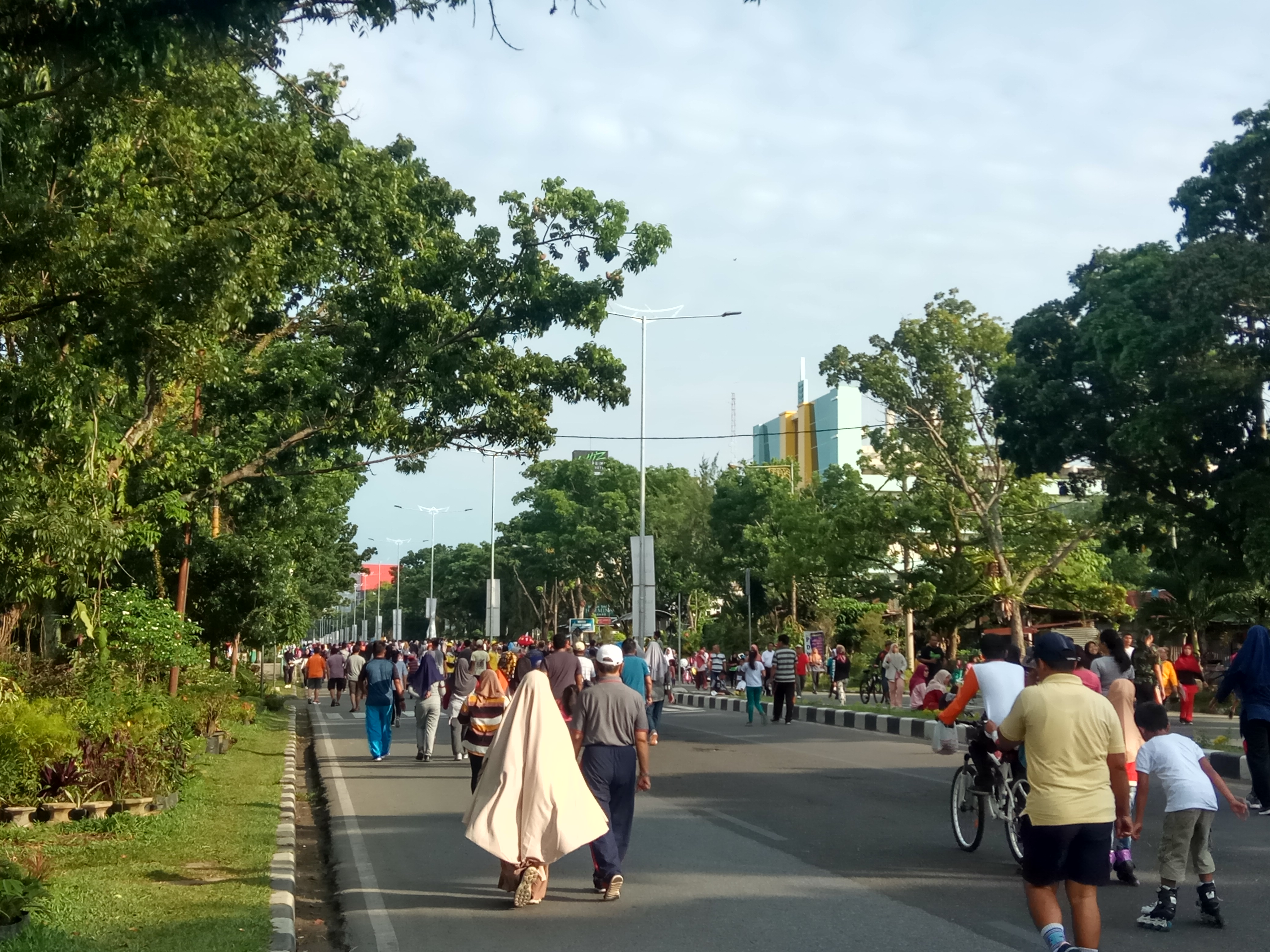 Car free day Padang 2019